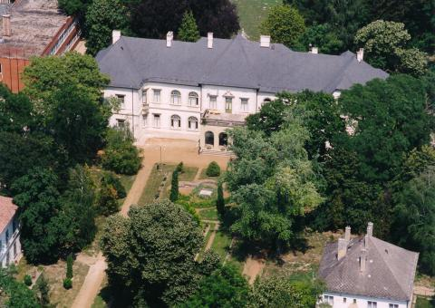 Iregszemcse, Hungary, aerialphotography (Viczay-Kornfeld Mansion)